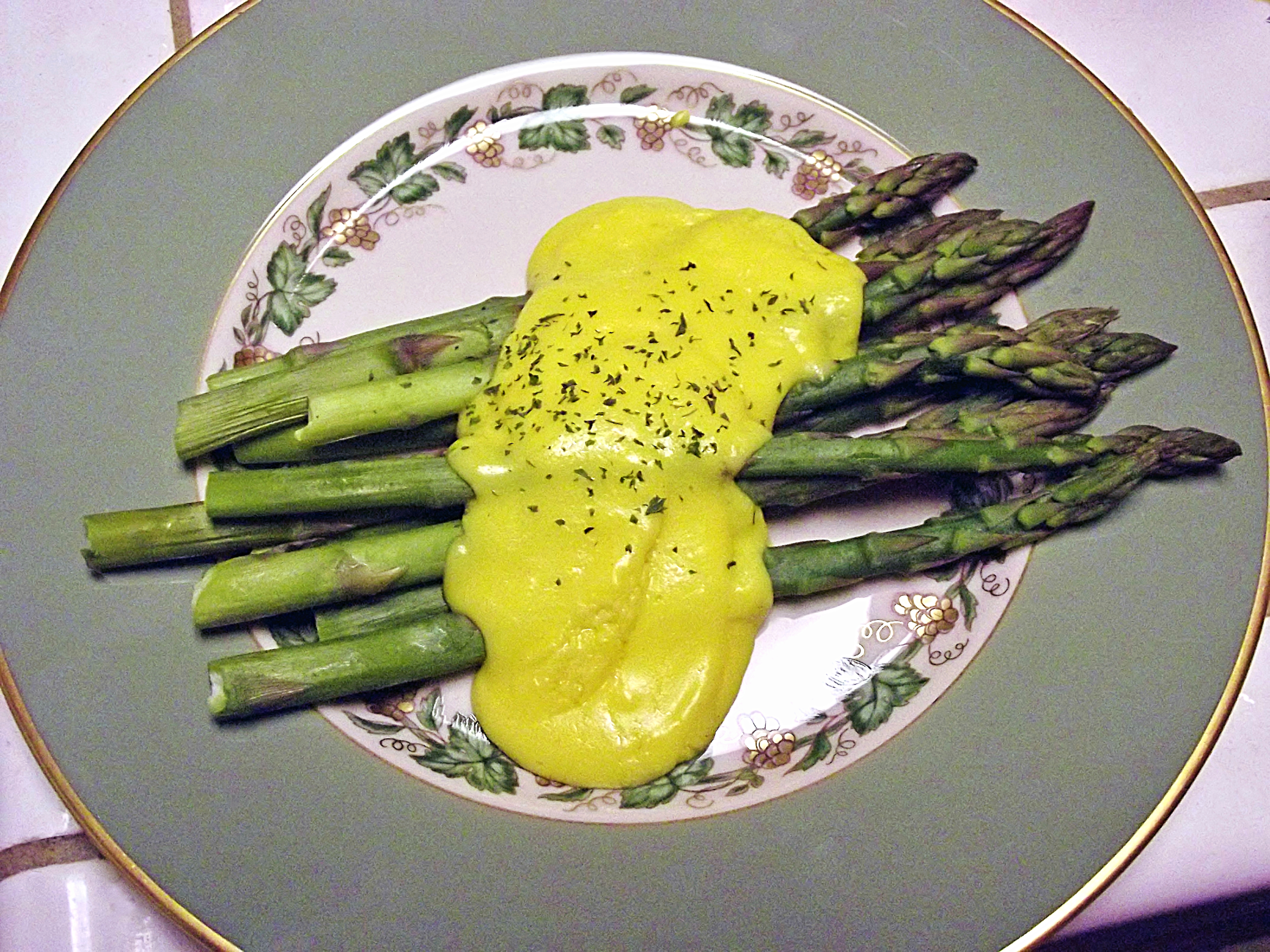 Fresh asperagus with homemade hollandaise sauce.